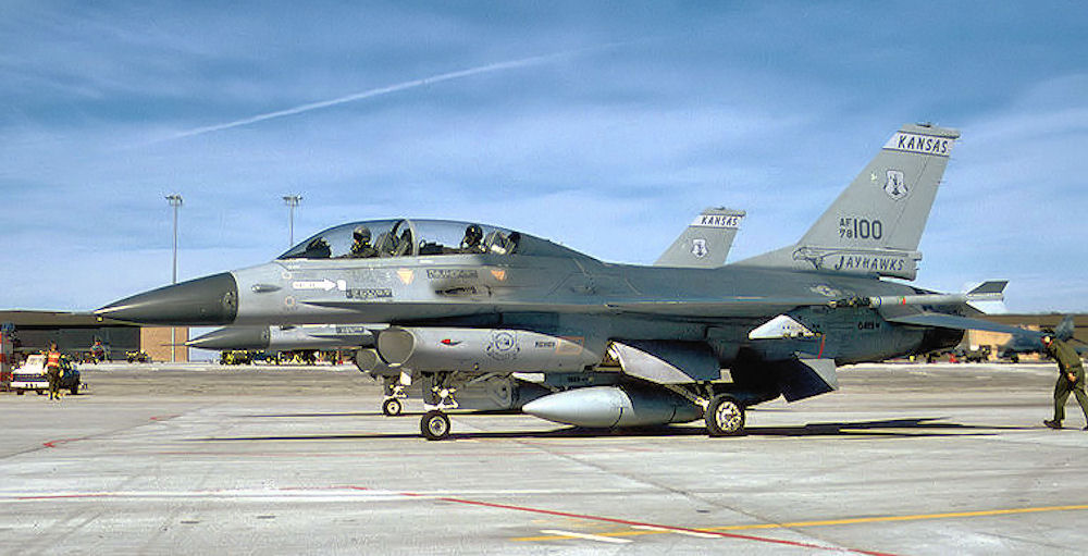 184th Tactical Fighter Group - General Dynamics F-16B Block 5 Fighting Falcon 78-0100. Aircraft crashed 30 mi E of China Lake Naval Air Warfare Center during photo/chase sortie from Edwards AFB Jul 17, 2001 with the 416th FS. Both occupants killed.